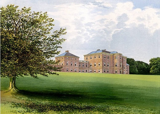 Mersham-le-Hatch, a country house (listed grade I) and designed by Robert Adam.